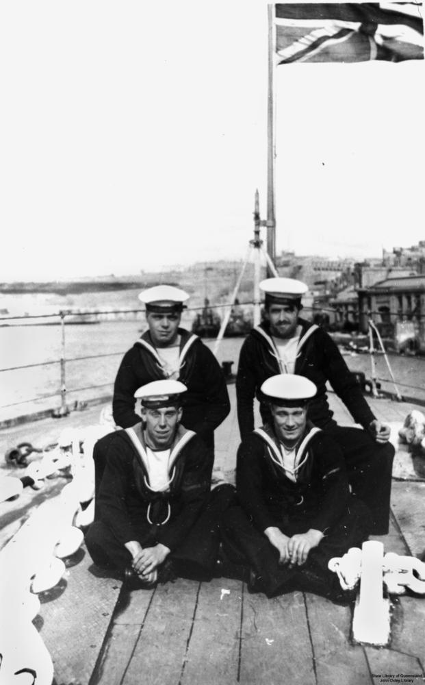 Four crew members from British cruiser H.M.S. Dragon pose on the deck at the bow of the ship, possibly in Brisbane.